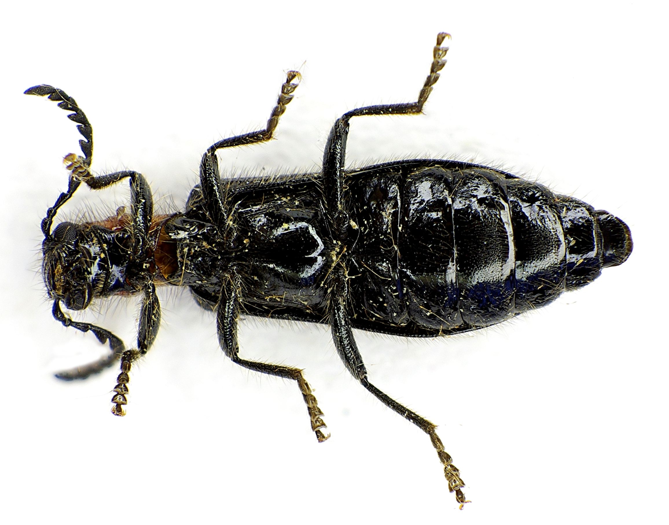 Underside of Tillus elongatus